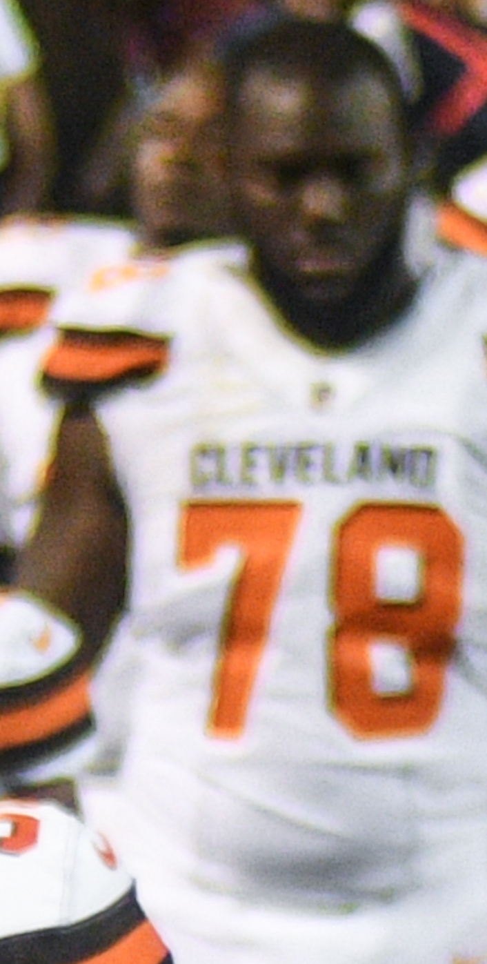 Cleveland Browns vs. New York Giants